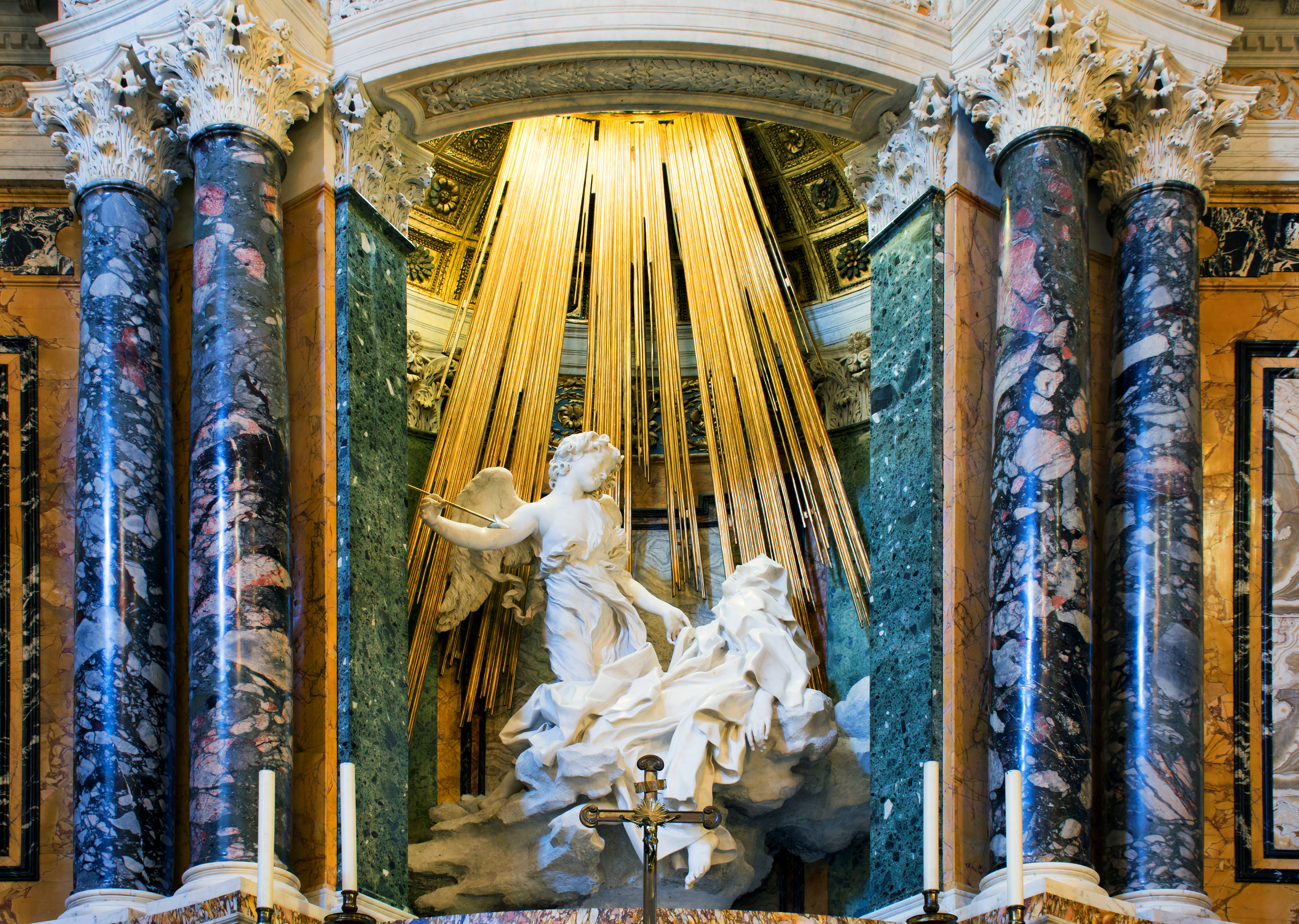 Ecstasy of St. Teresa